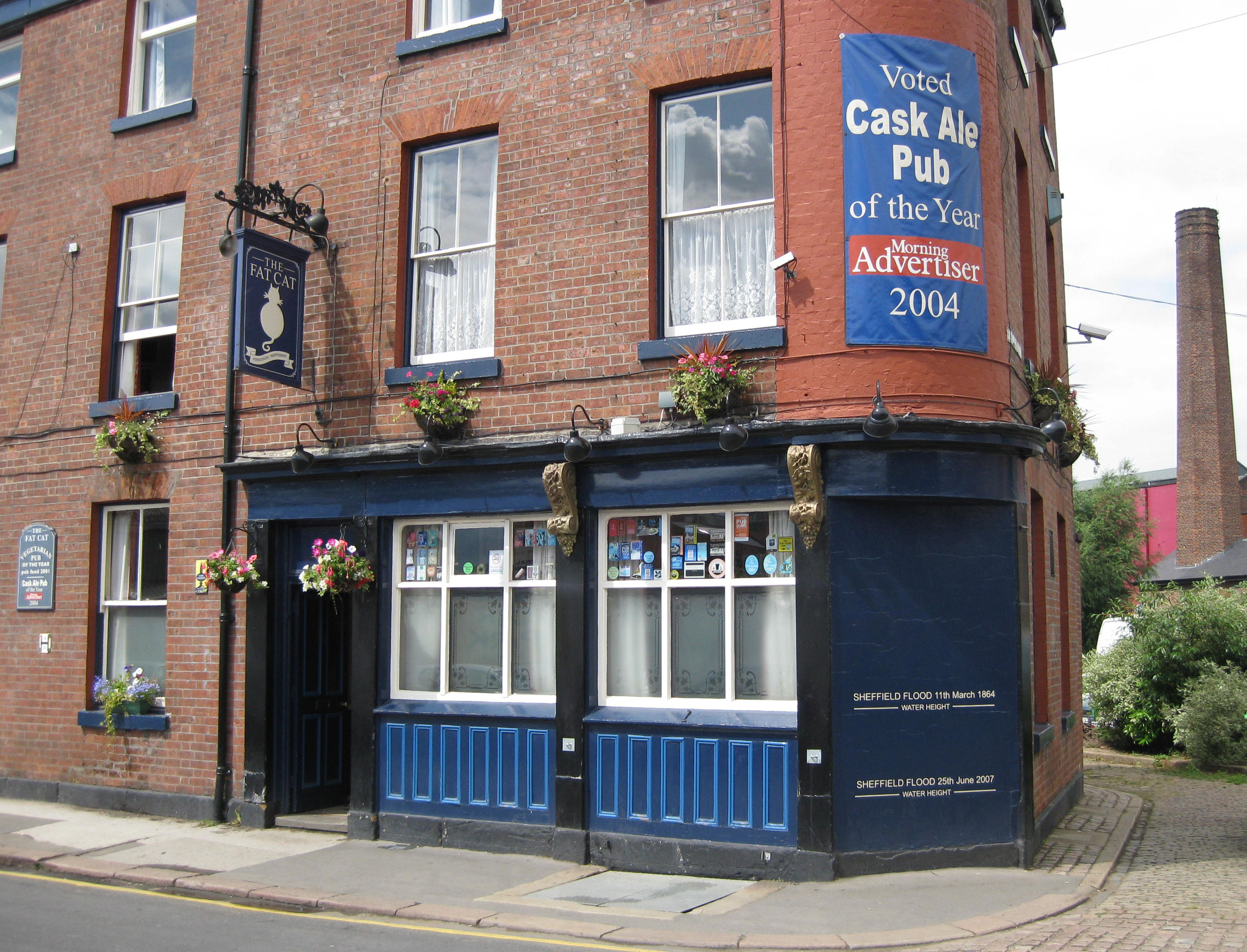 Fat Cat public house, 23 Alma Street, Sheffield, S3 8SA. A free house, owned by the adjacent Kelham Island Brewery.